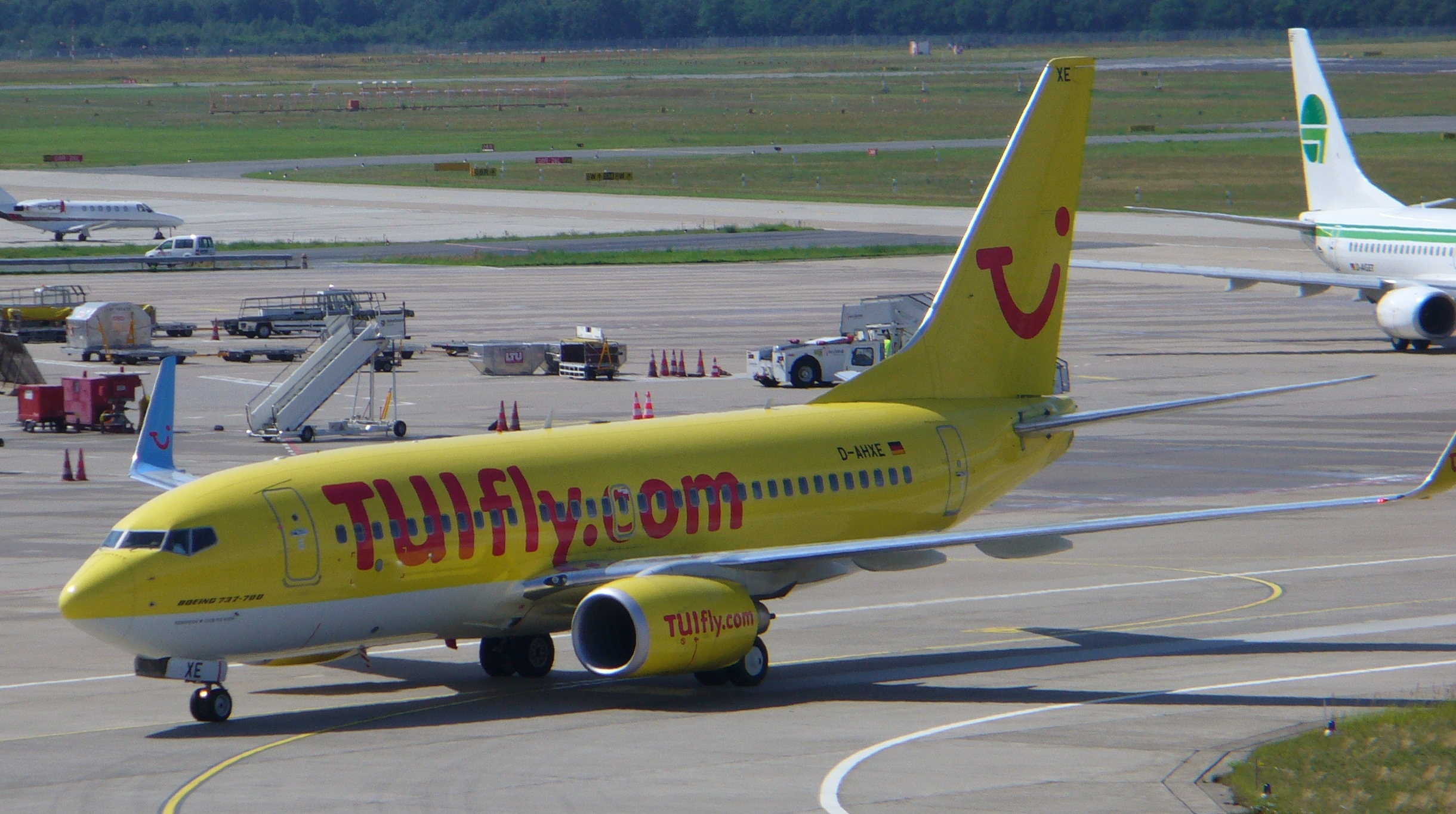 A TUIfly Boeing 737-700 aircraft taxiing at Berlin Tegel Airport following a flight from Venice